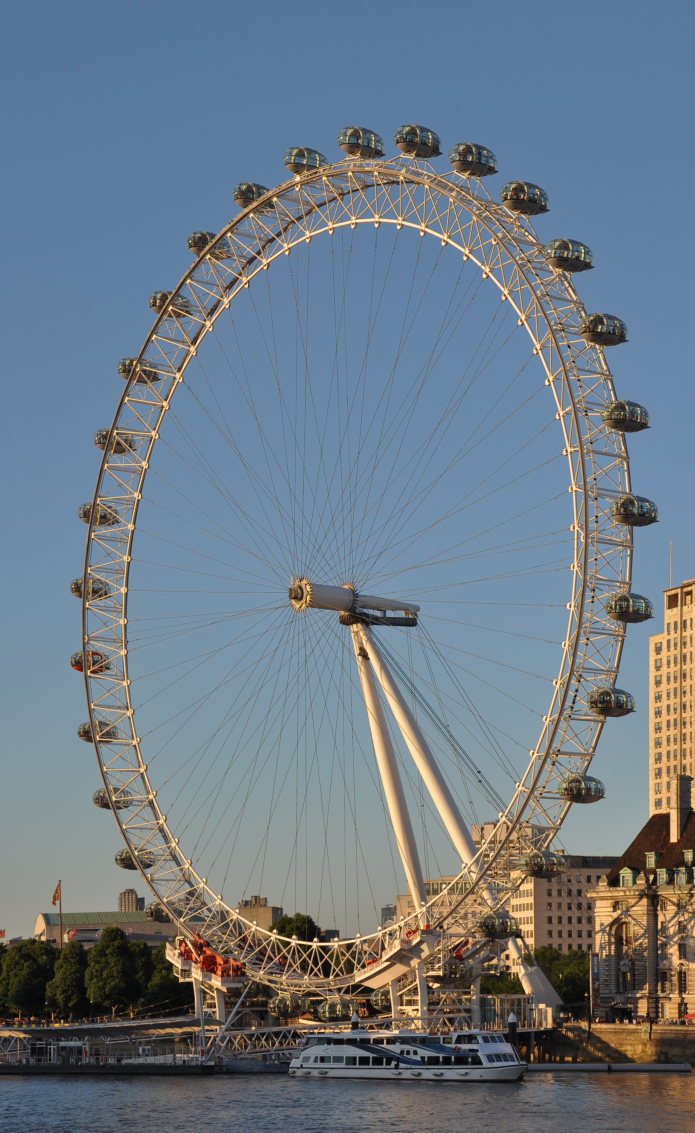 London Eye at sunset.